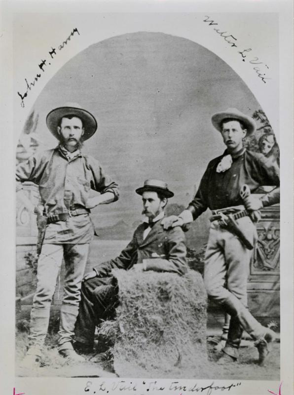 Owners of the Empire Ranch in Arizona in 1879: John H. Harvey (left), Edward L. Vail "The Tenderfoot" (center), and Walter L. Vail (right).